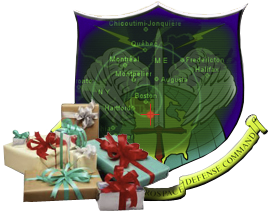 NORAD Tracks Santa logo.